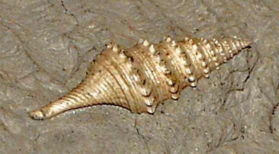 Crop of file in filename